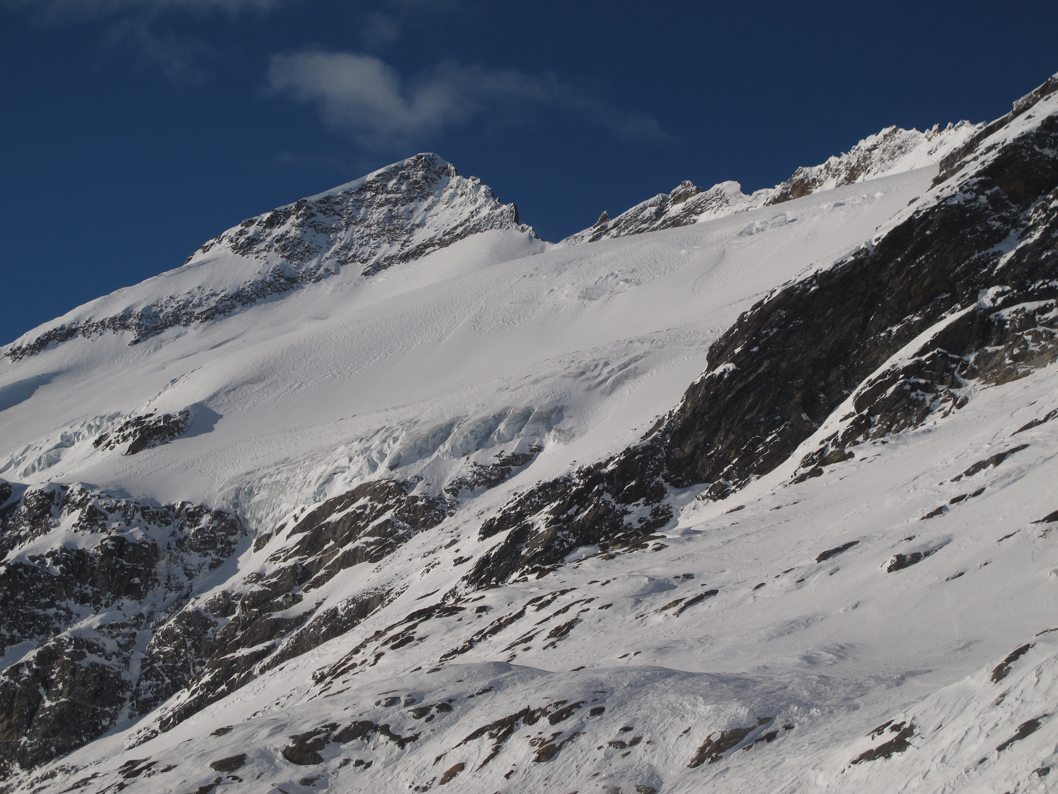 Östliche Simonyspitze and Maurerkees in winter